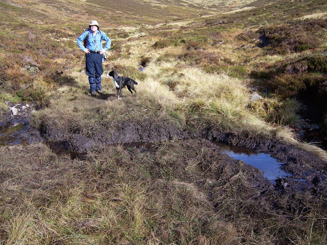 A deer wallow A deer wallow on the path to Carn nan Gahar. In the autumn deer will wallow in the peaty mud, which rids them of ticks and other parasites. Stags particularly enjoy a good wallow during the rutting season.